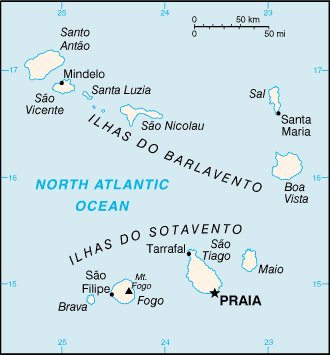 A map of the Republic of Cabo Verde, showing major cities.